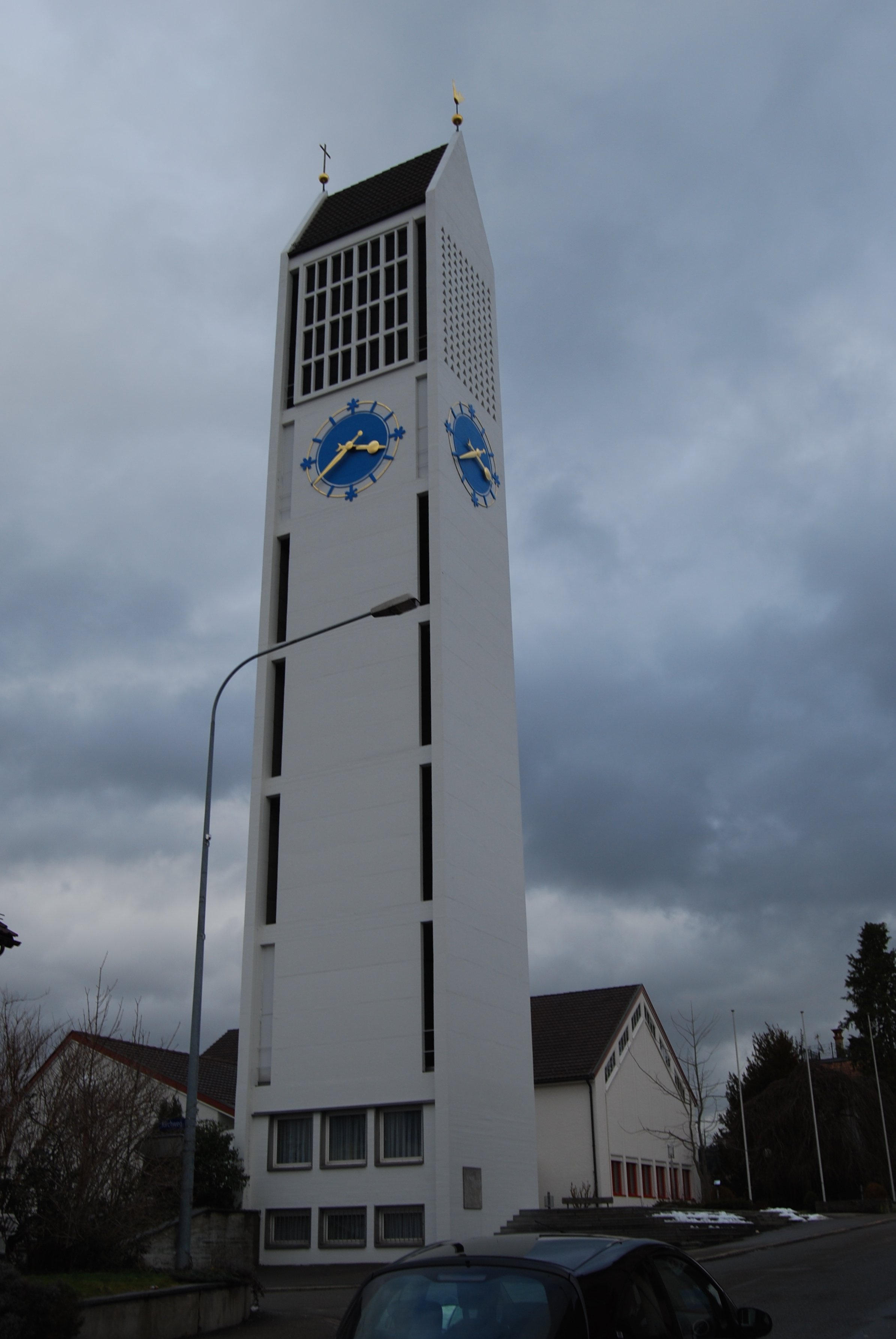 Protestant church of Aadorf, canton of Thurgovia, SwitzerlandEsperanto: Protestanta preĝejo de Aadorf, Kantono Turgovio, Svislando